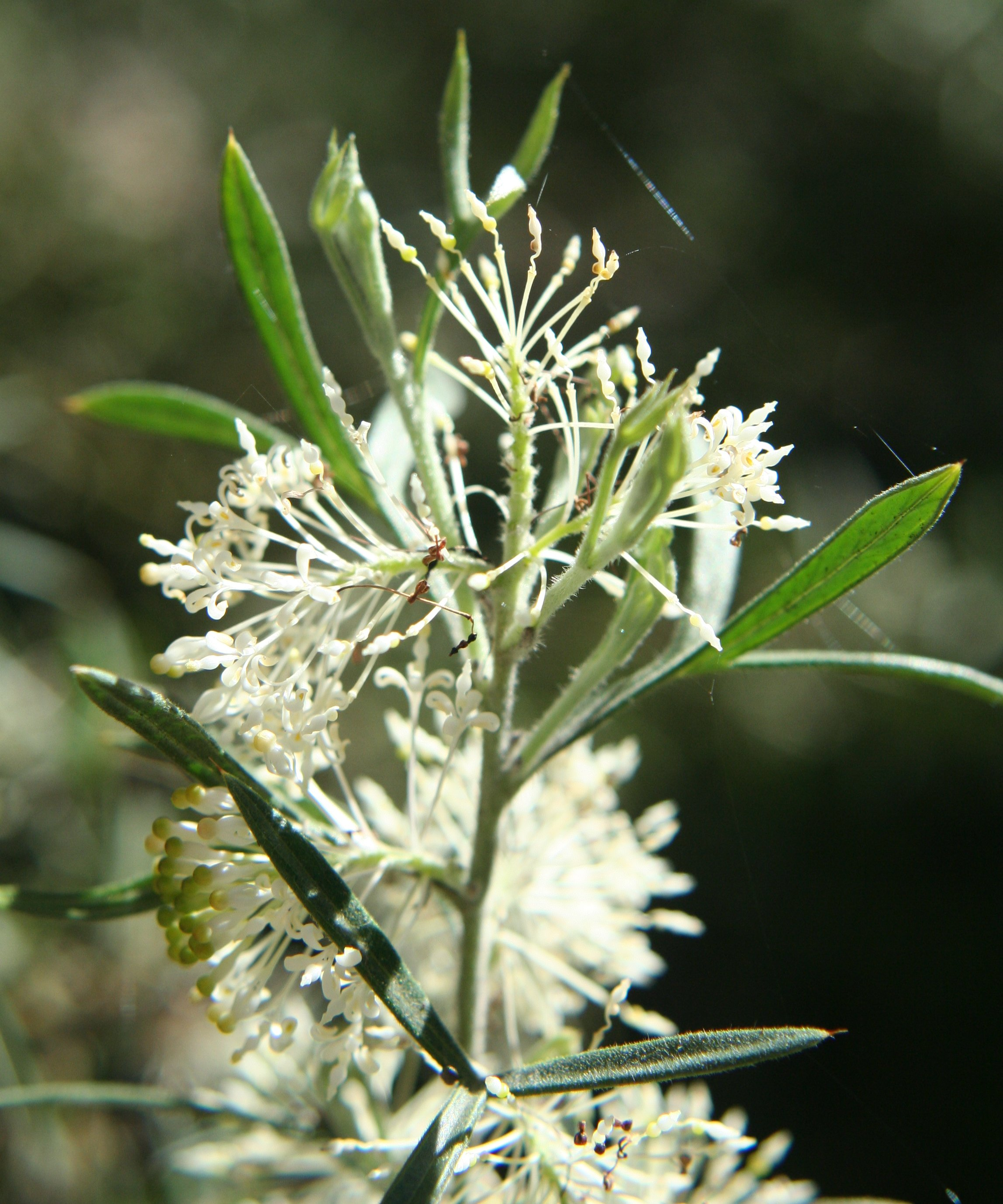 Flower of Grevillea triloba